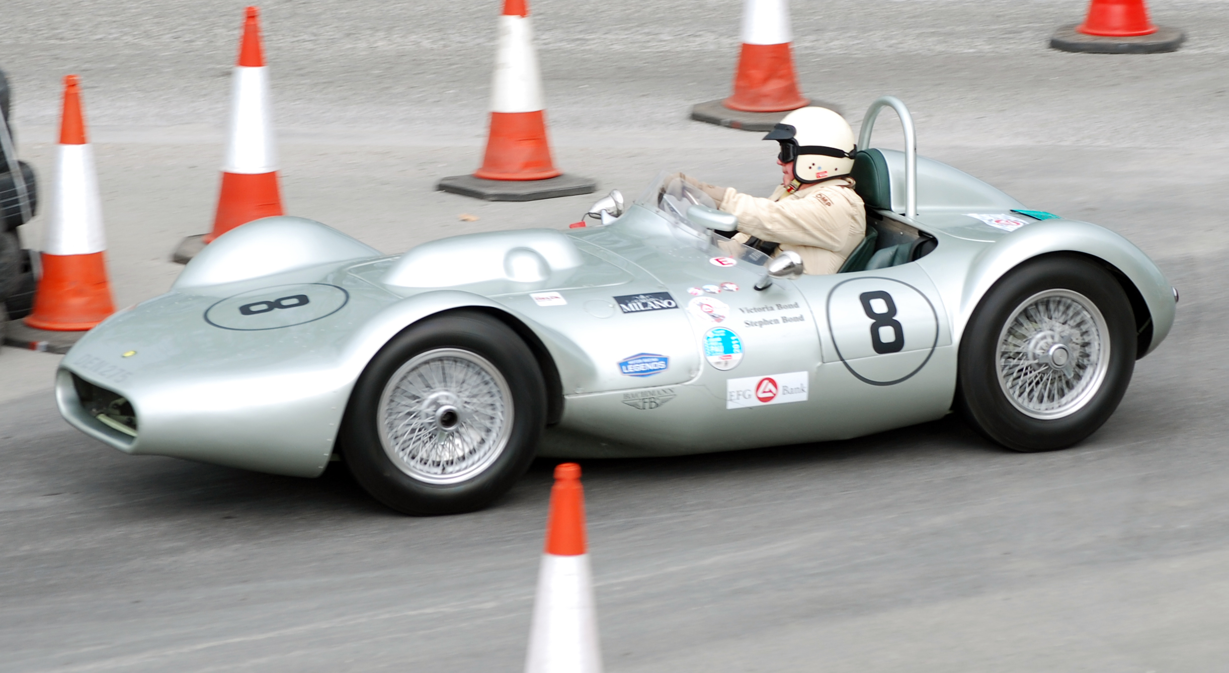 1955/57 ex Ecurie Bullfrog and John Horridge 2-liter Bristol-engined Lister at Bahamas Speed Week, November 2011. Chassis number BHL9 (engine number 3037100AB2) has had an incredibly checkered and confusing existence, see more here. Lots of racing provenance helped this car set a new auction price record for Bristol engined Listers in 2008.